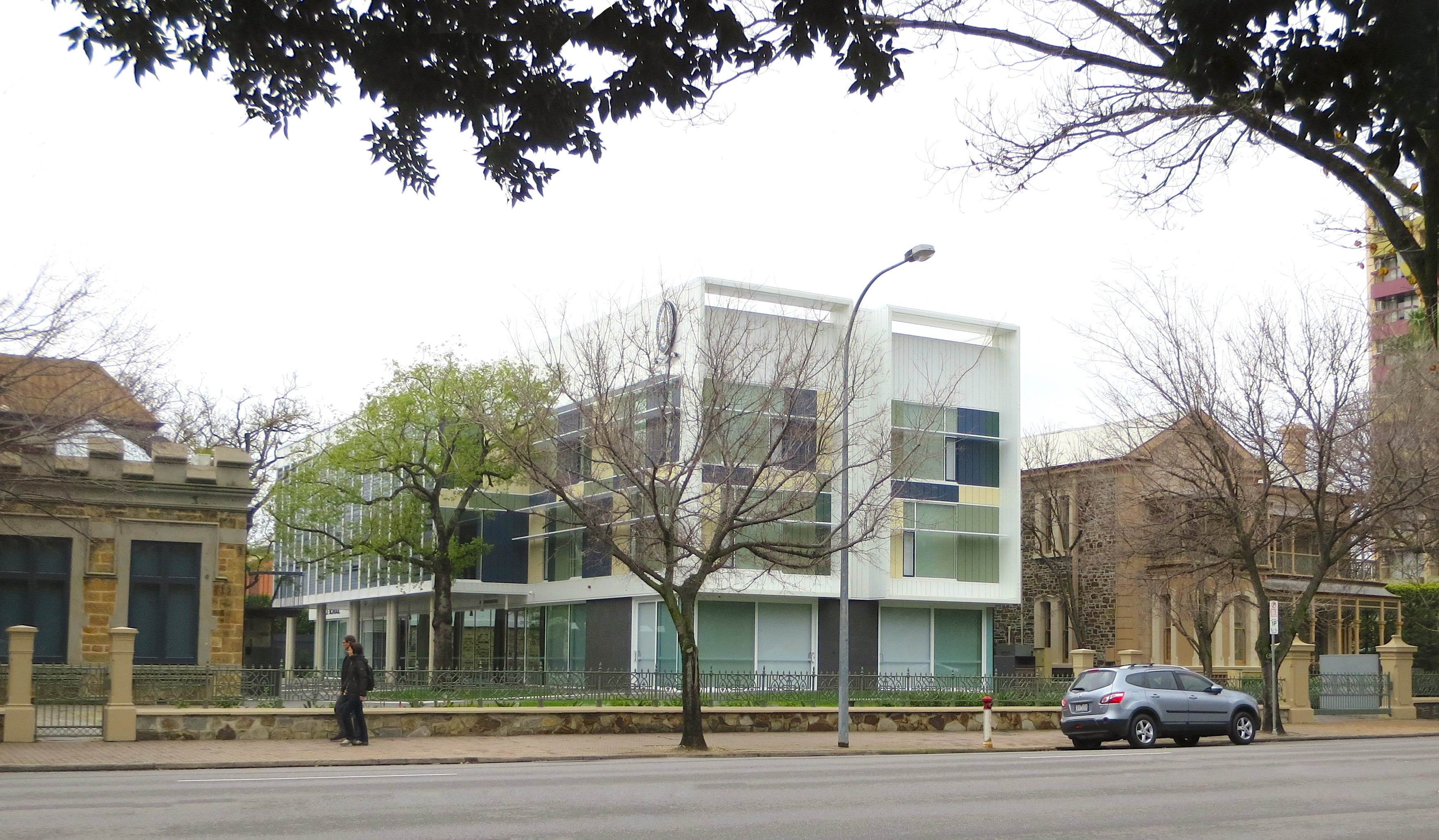 The newly opened (in 2019) Middle School building of Pulteney Grammar School, South Terrace, Adelaide, South Australia, flanked by older buildings of the school